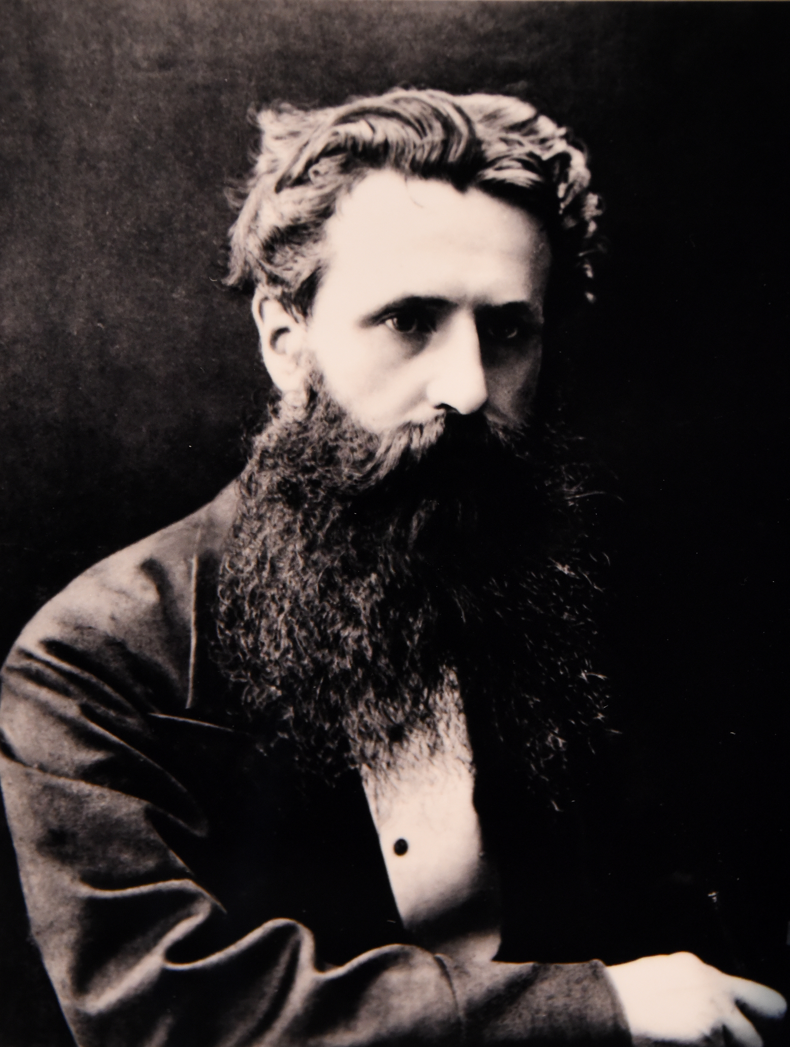 Mr. George Smith was an assistant at the British Museum in London. In 1872, he transliterated and read the cuneiform inscriptions on Tablet XI of the Epic of Gilgamesh. The inscriptions narrate a story that is very similar to the Biblical story of Noah's Ark and the Flood in the Book of Genesis. This image is on display near Tablet XI of the Epic of Gilgamesh at the British Museum.